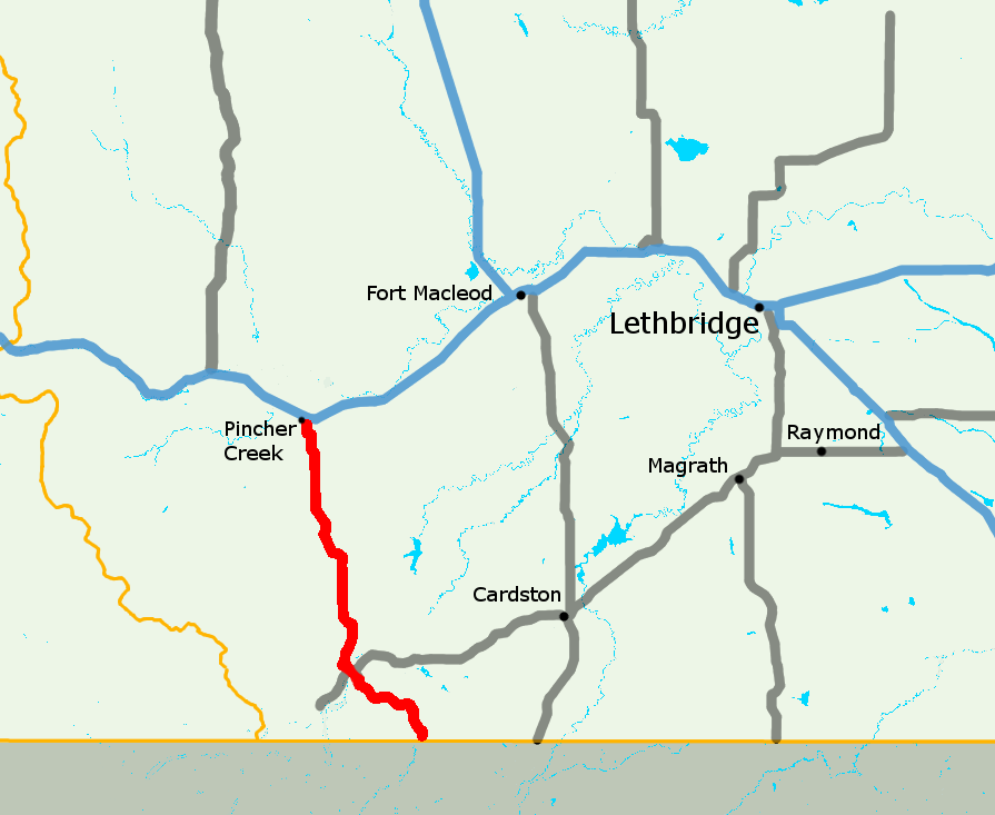 Alberta Highway 6 - created with OpenStreetMap